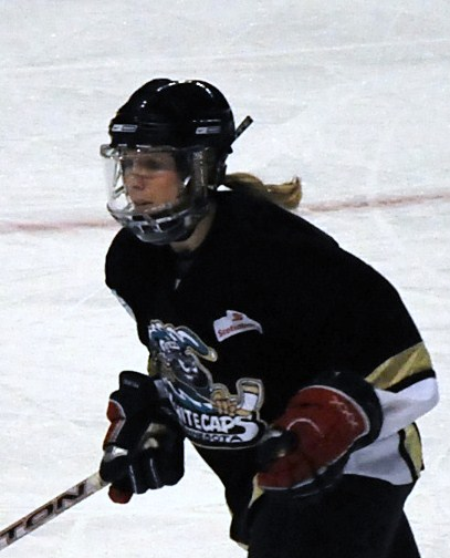 Calgary Oval X-Treme vs. Minnesota Whitecaps 2009-03-20, WWHL